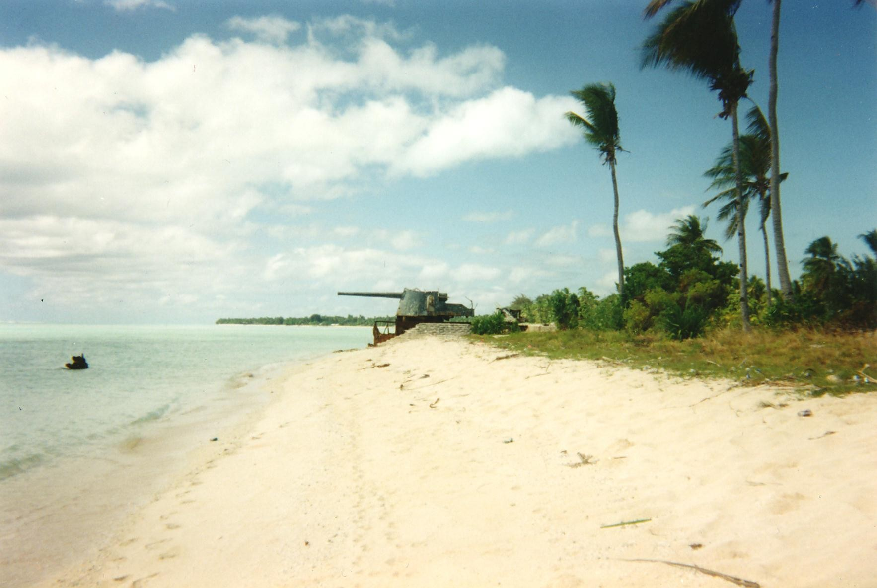 Photo taken by Roisterer who releases it under GFDL . Image is of World War II Japanese defences on Tarawa, Gilbert Islands, Kiribati. Image taken December 1996.